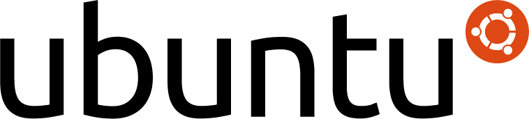 ALTERNATIVE Official Ubuntu circle with wordmark. Replace File:Former Ubuntu logo.svg.